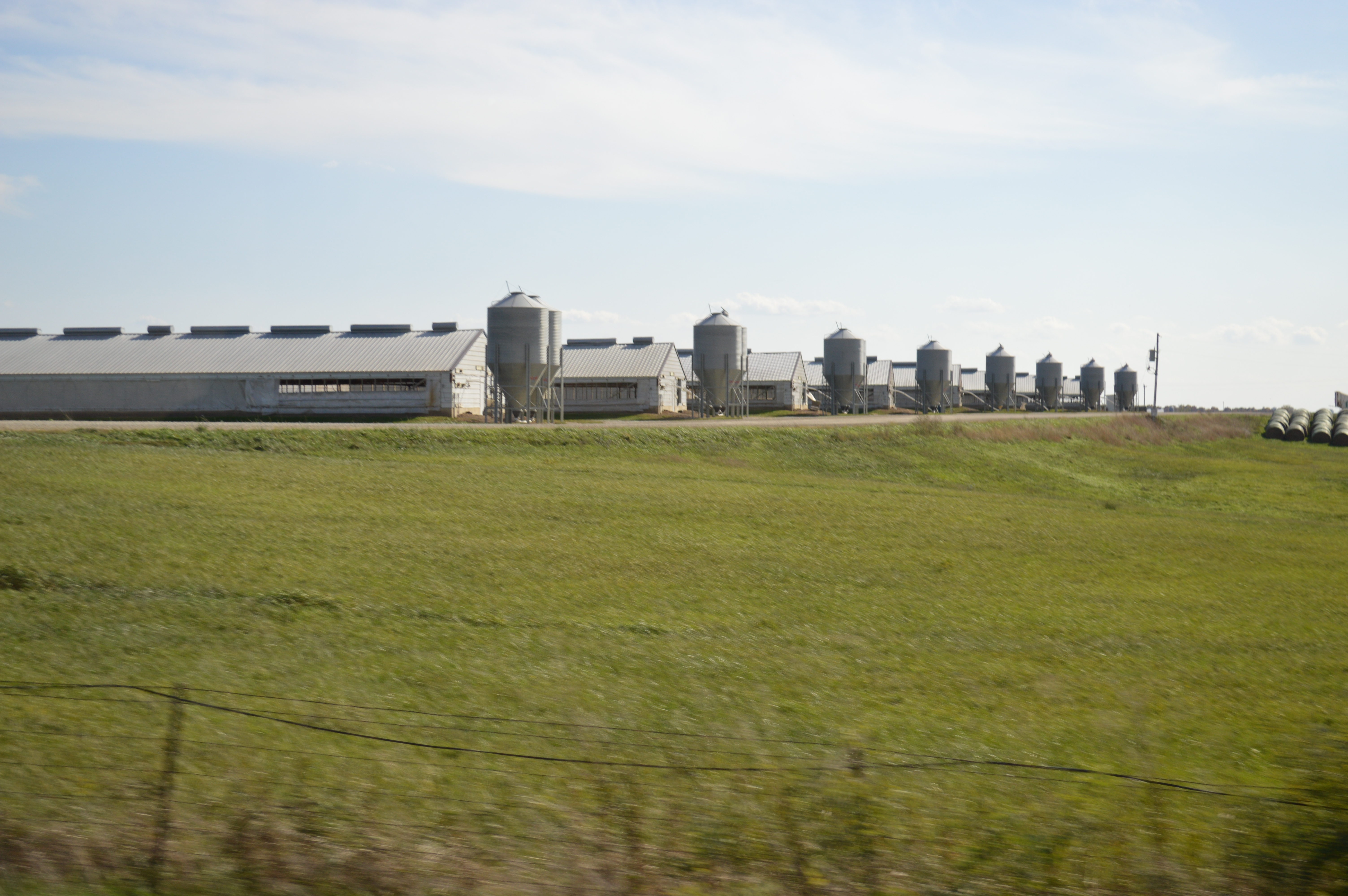 Concentrated animal feeding operation (CAFO), Unionville, Missouri, United States, owned by Smithfield Foods